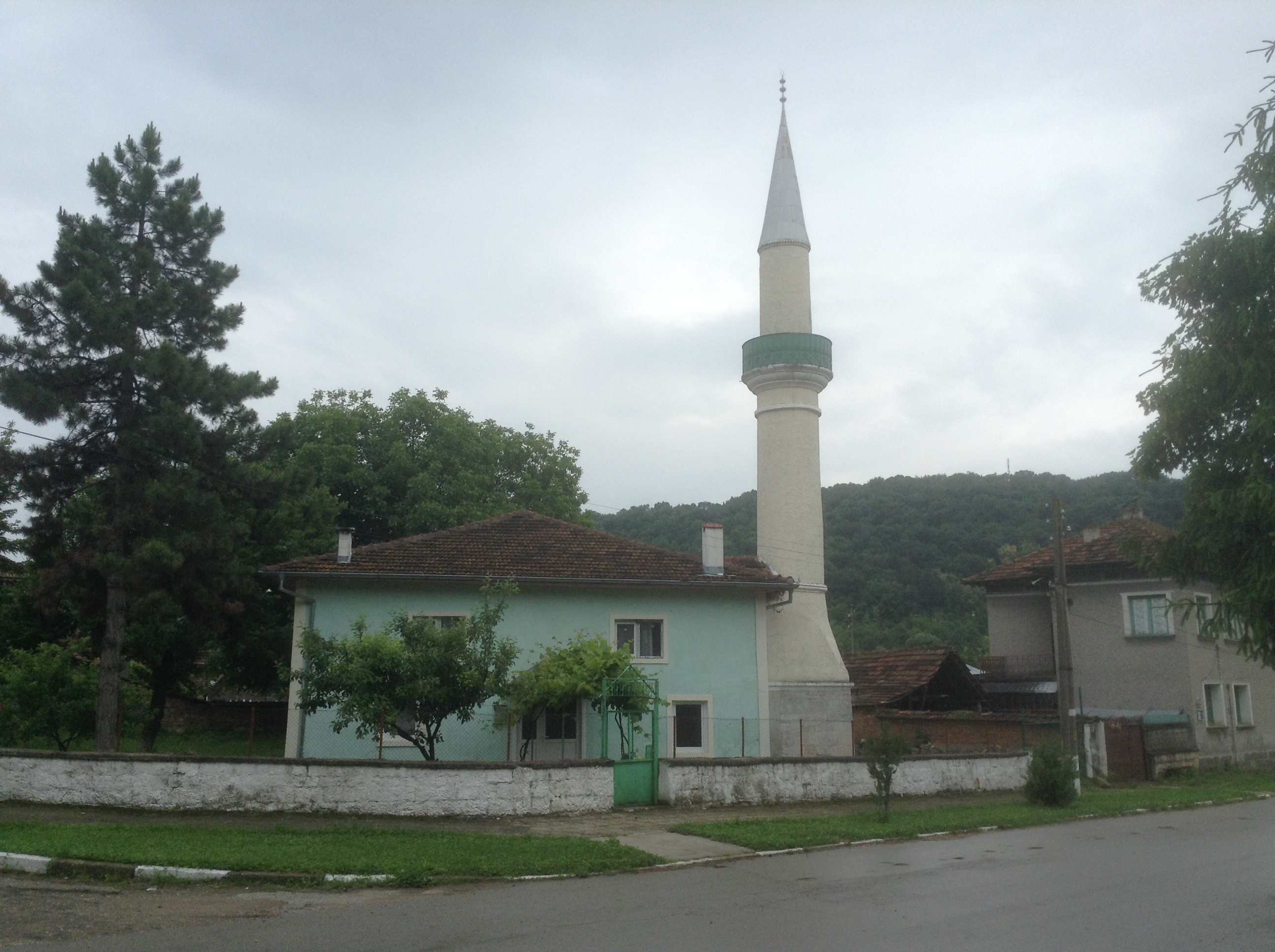 Mosque in village of Svalenik, Bulgaria.